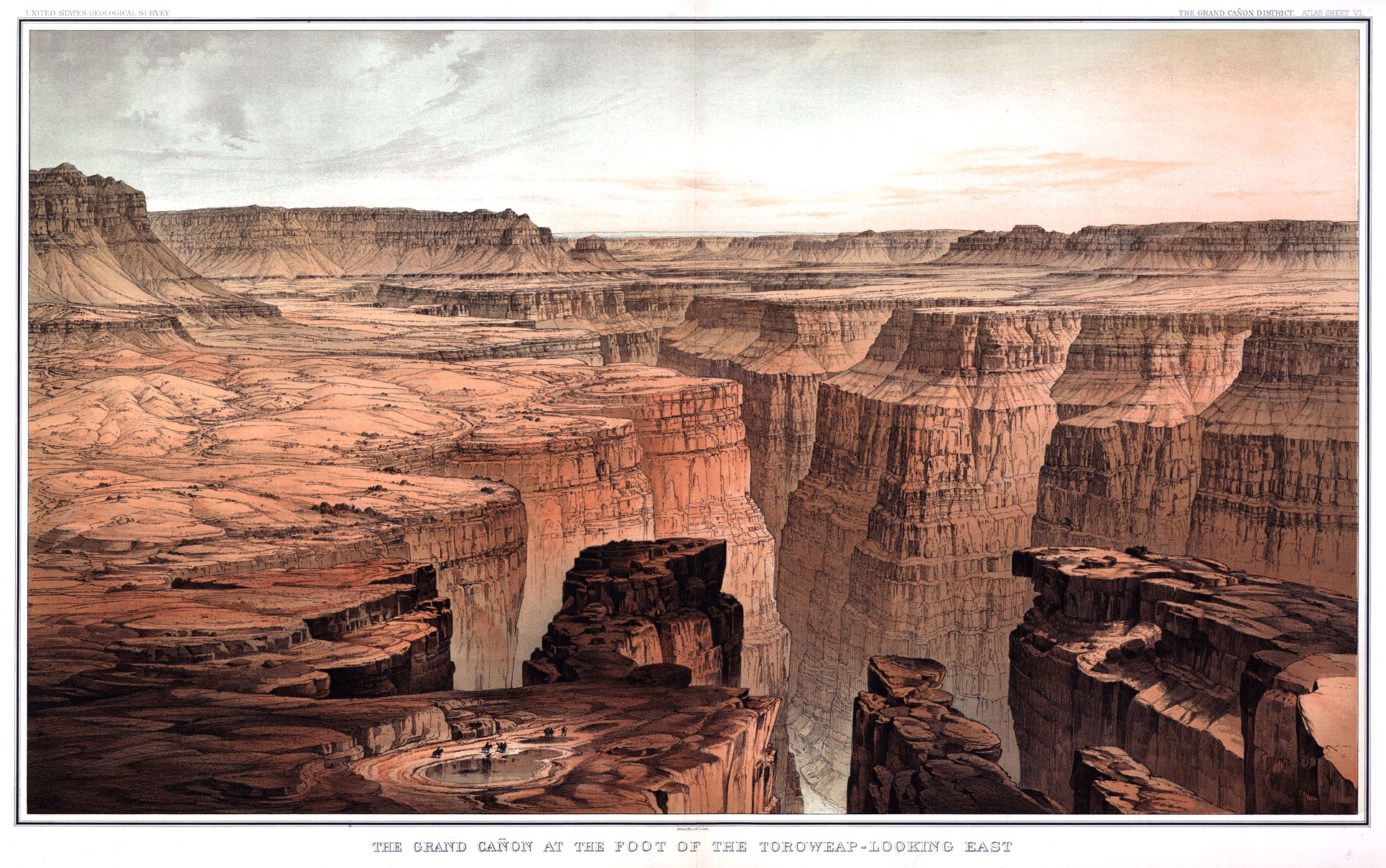 sheet VI - The Grand Canon at the foot of the Toroweap-Looking East